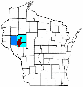 Map of Wisconsin. Areas in red are part of the Eau Claire-Chippewa Falls Metropolitan Planning Organization. Areas in light blue are those portions of Eau Claire and Chippewa County not included within the MPO. Adjacent Dunn County, which is included also in the Eau Claire-Menomonie Consolidated Metropolitan Statistical Area, is a shaded a darker blue.